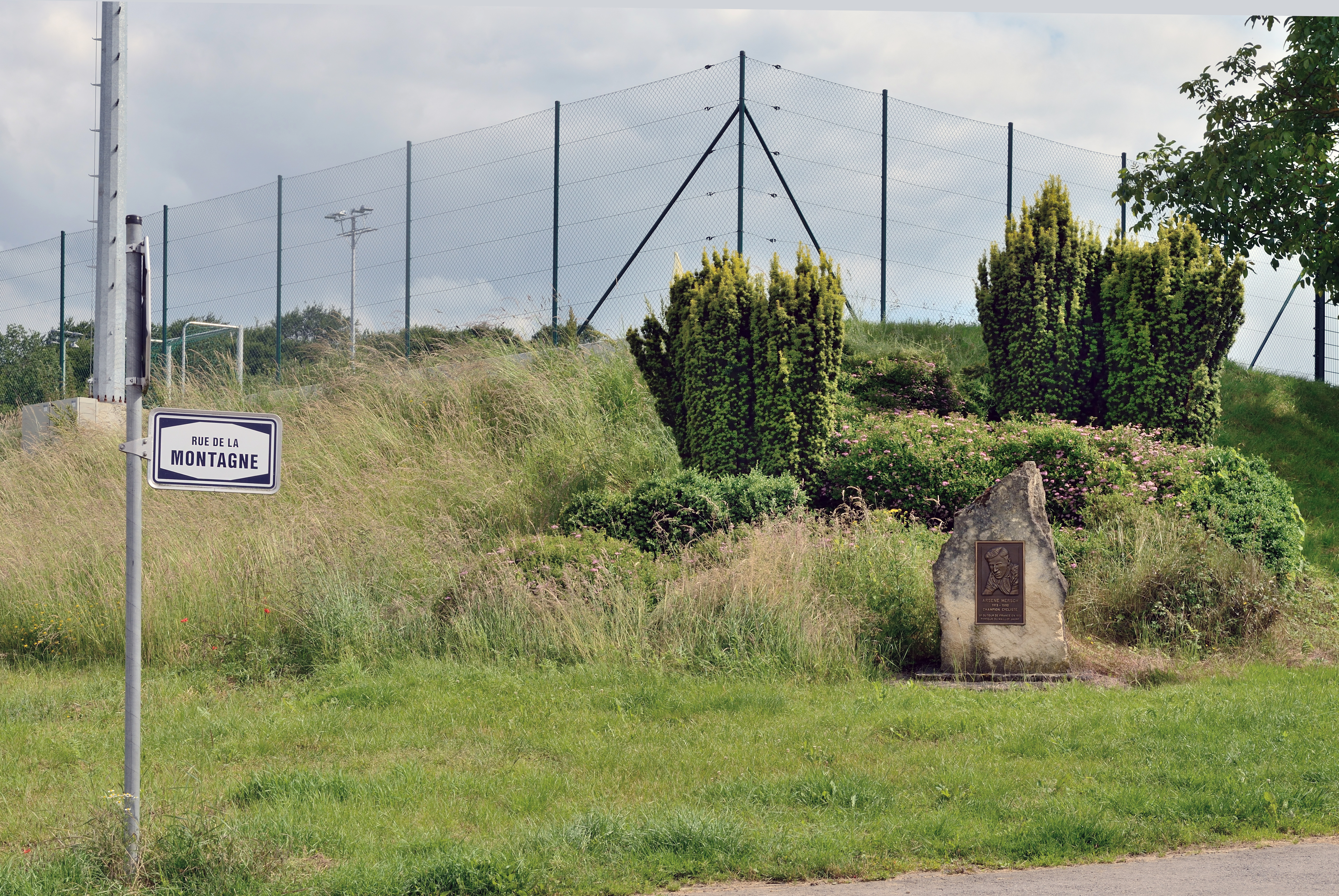 Luxembourg, Koerich: monument commemorating the cyclist Arsène Mersch (1913-1980).